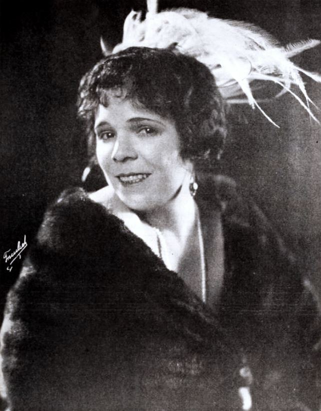 Actress Dale Fuller, on page 65 of the June 24, 1922 Exhibitors Herald.